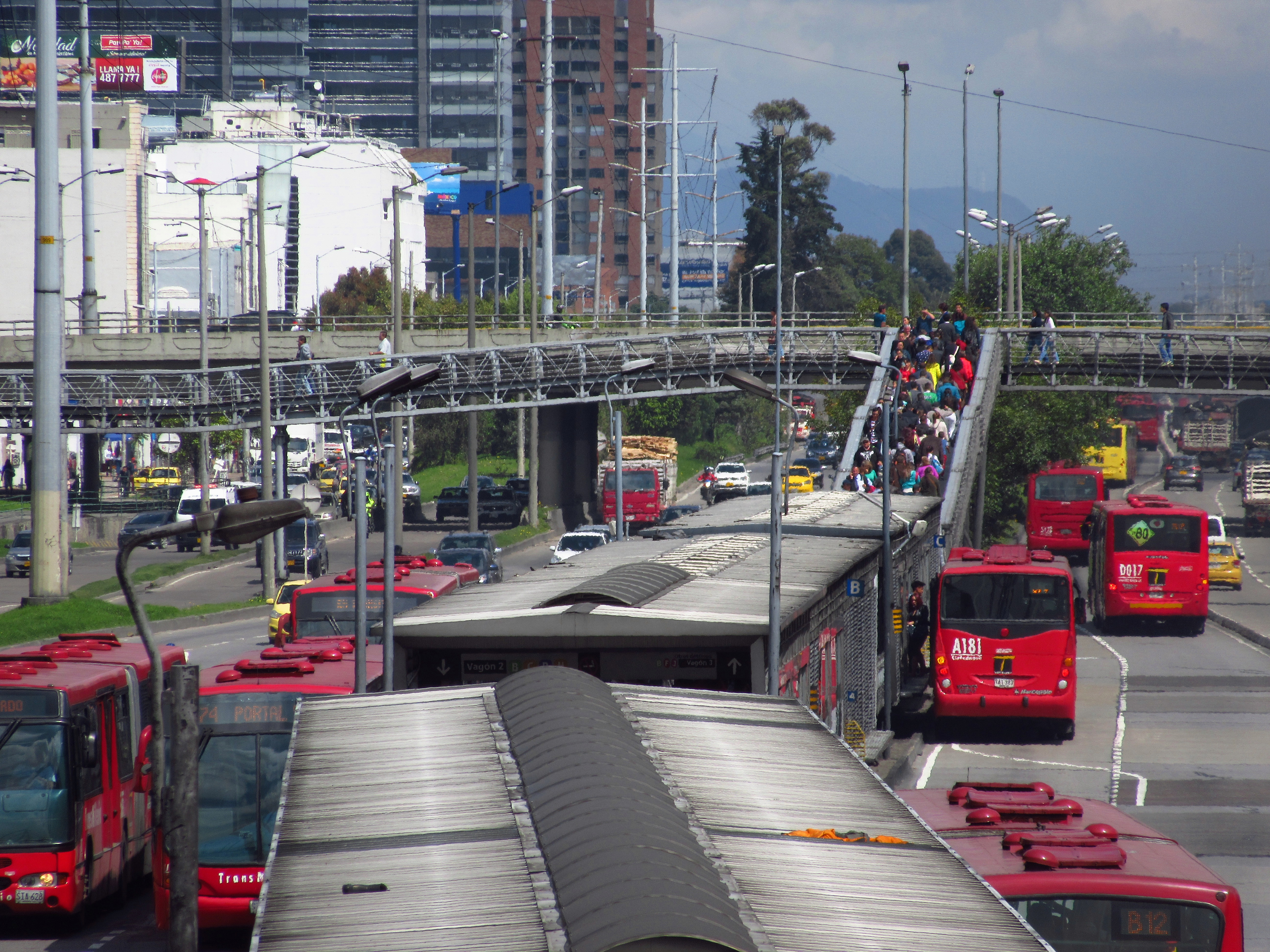 Bogotá